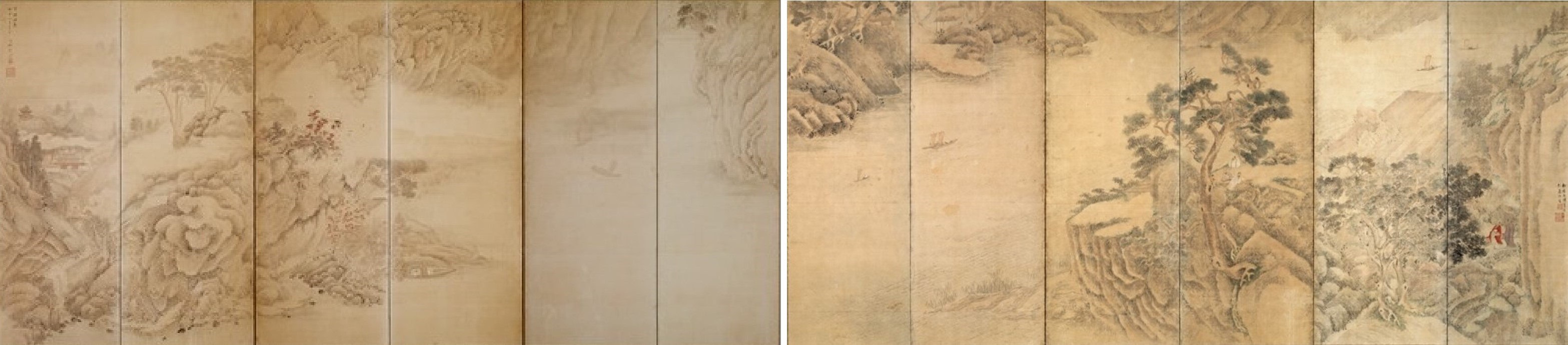 Pair of screens, depicting landscape